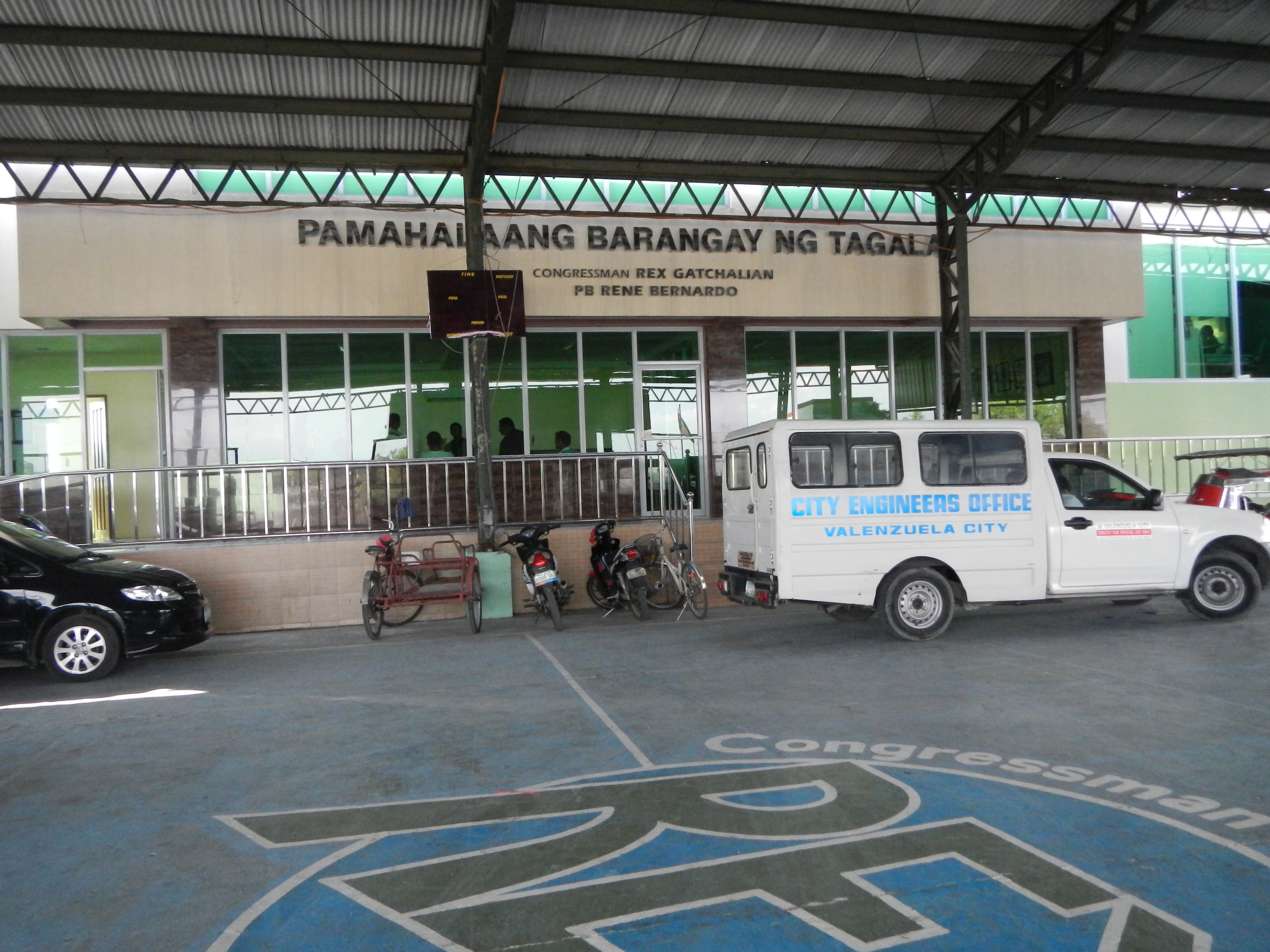 Tagalag, Valenzuela (Tagalag Road, cor. Balikatan st., Tagalag Elementary School, Fiesta papers or banderitas surrounding the streets in the just finished Barangay Fiesta, submerged fish ponds, since this ultra-low tide area, is easily inundated 5 to 6 feet in rainy seasons, the Barangay Chapel and Barangay Hall inside a Covered Court, surrounded by breeze of fish ponds, bakawan scenery of Tagalag, Valenzuela, Valenzuela, Philippines (List of barangays in Valenzuela- Valenzuela).